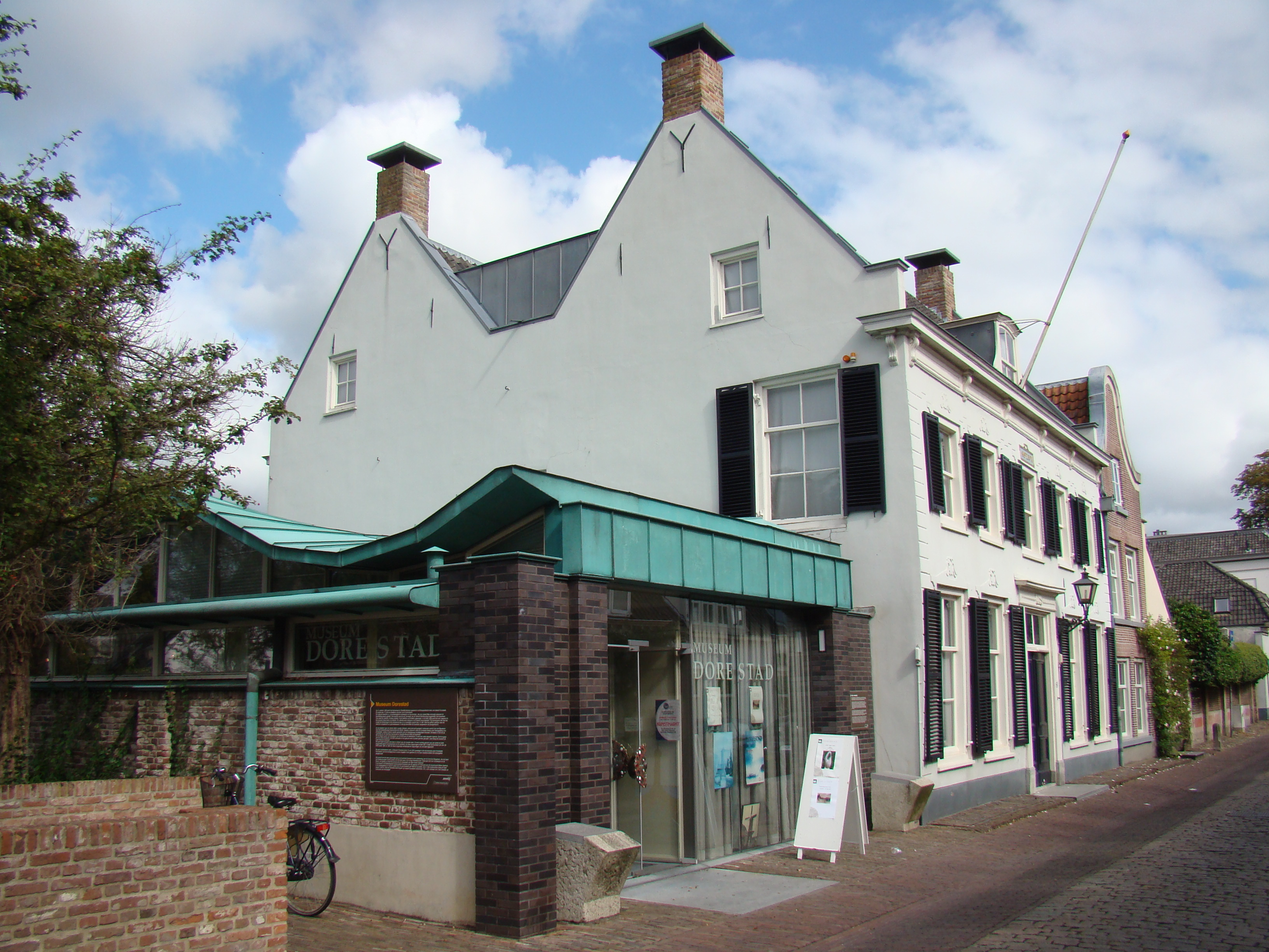 Museum Dorestad at Wijk bij Duurstede, Netherlands